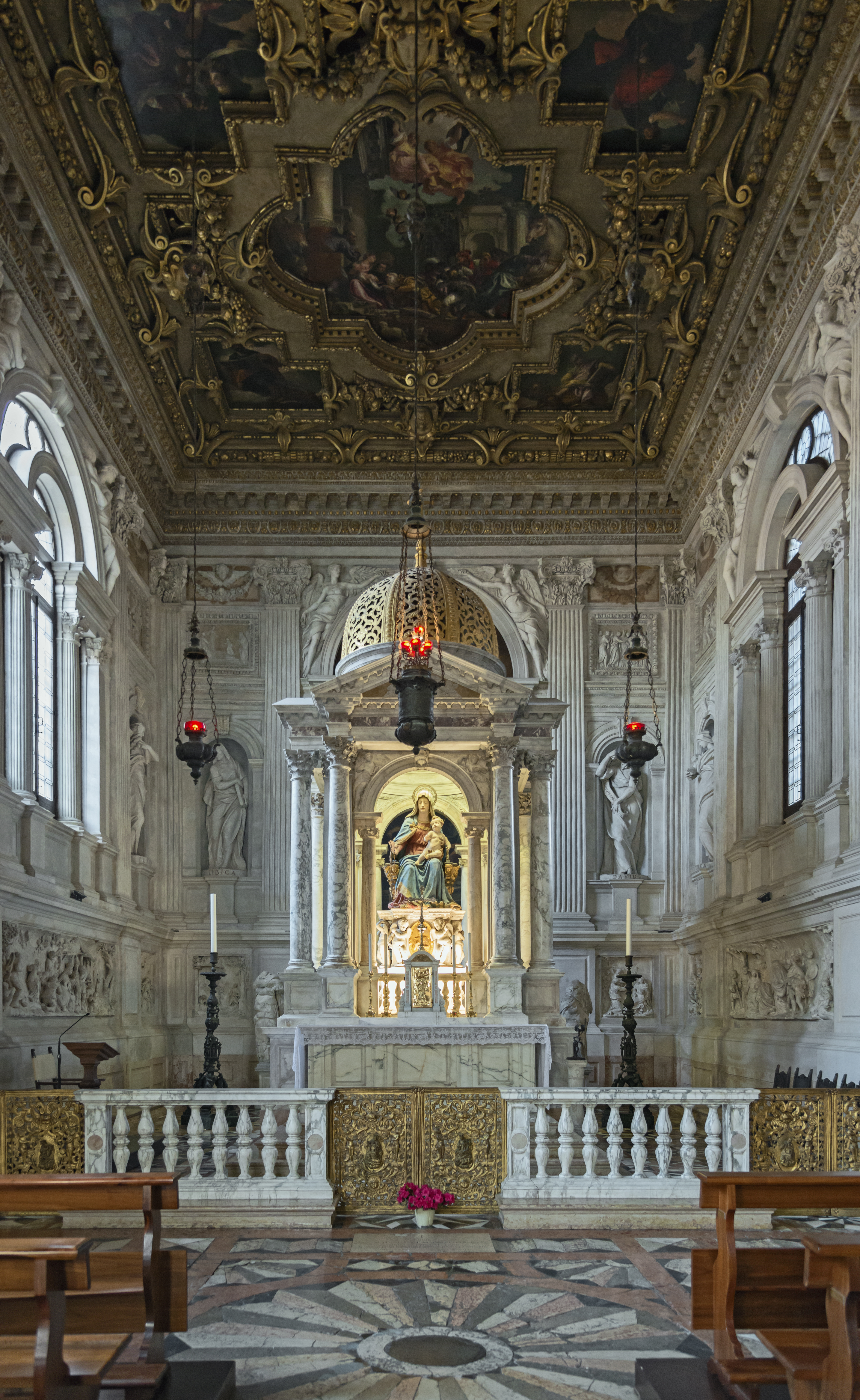 Santi Giovanni e Paolo in Venice. Chapel of our Lady of the Rosary or Chapel of Lepanto, in memory of the victory of 1571 against the Turkish fleet. It is under the patronage of St. Dominic. The altar is surmounted by a Ciborium Girolamo Campagna (V.1600)